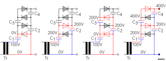 Explanation of the stages of the voltage multiplier. Reworked and renamed from the German Wikipedia.